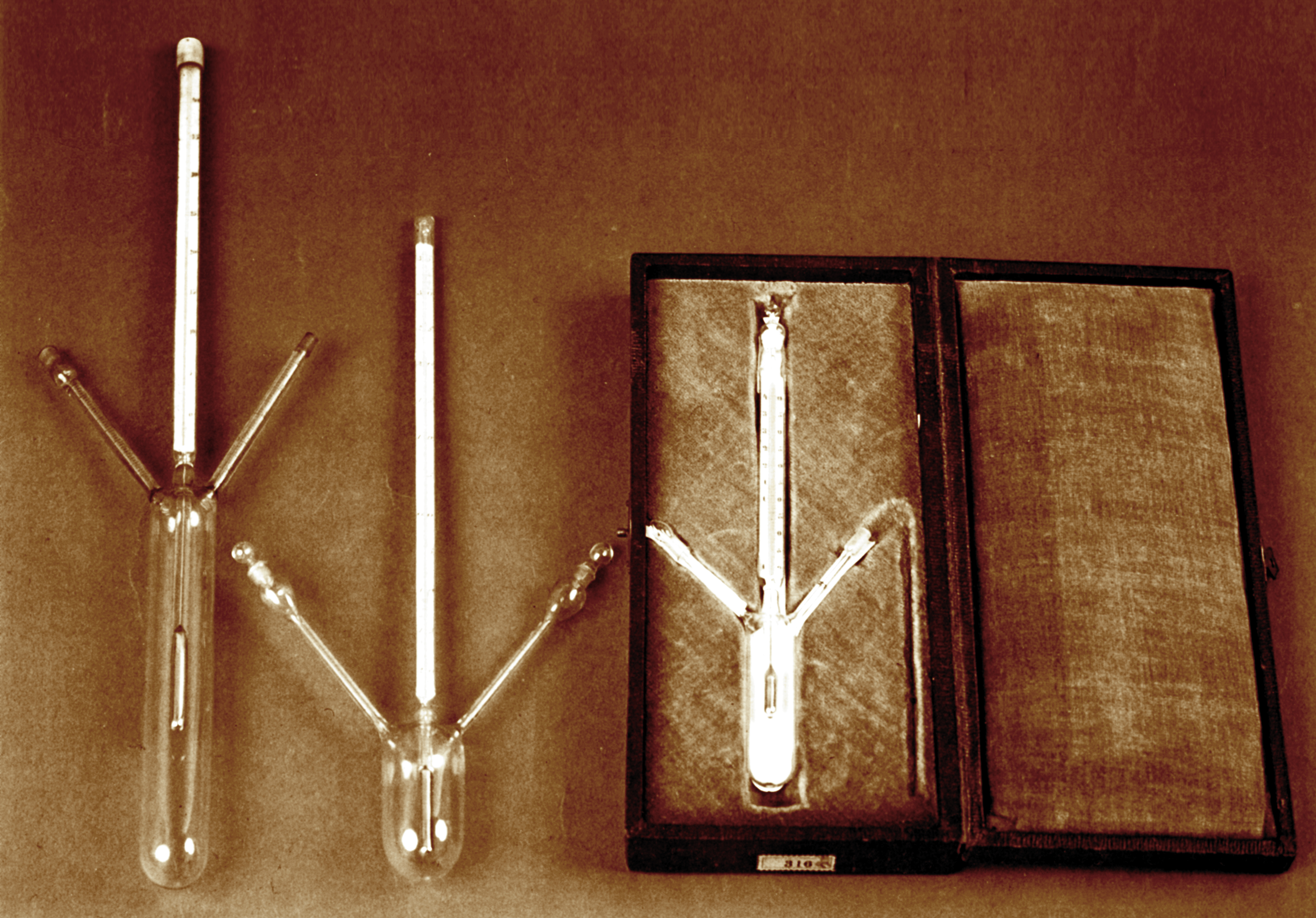 D. I. Mendeleev's piknometr